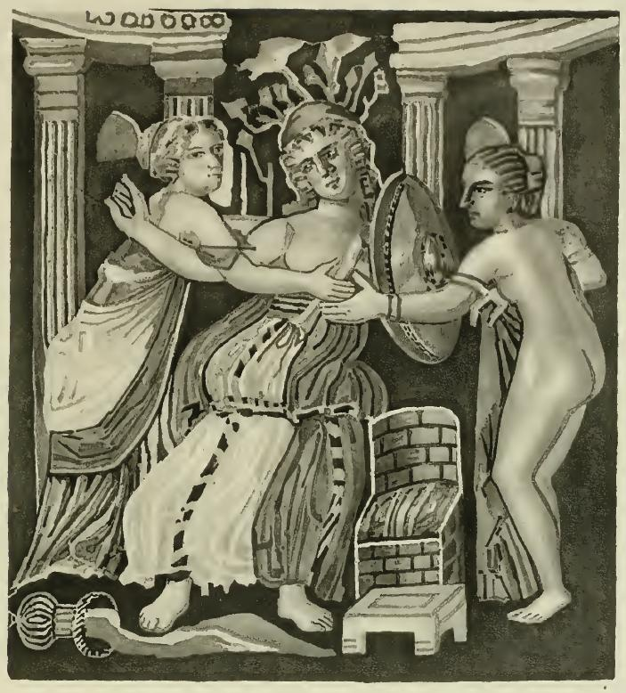 Mosaic found at Sparta depicting Achiles at Skyros